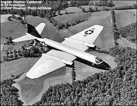 English Electric-built Canberra B Mk2, WD940, shown here after its transatlantic flight, as 51-17352, the prototype Martin B-57.